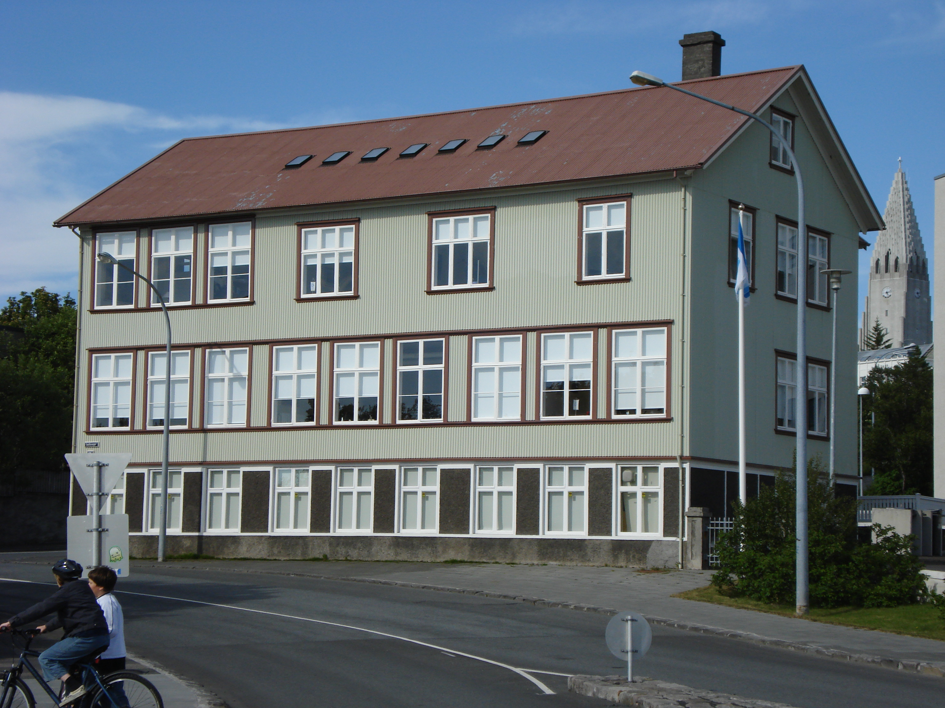 Kennaraháskoli, Teachers University, Reykjavík, Iceland